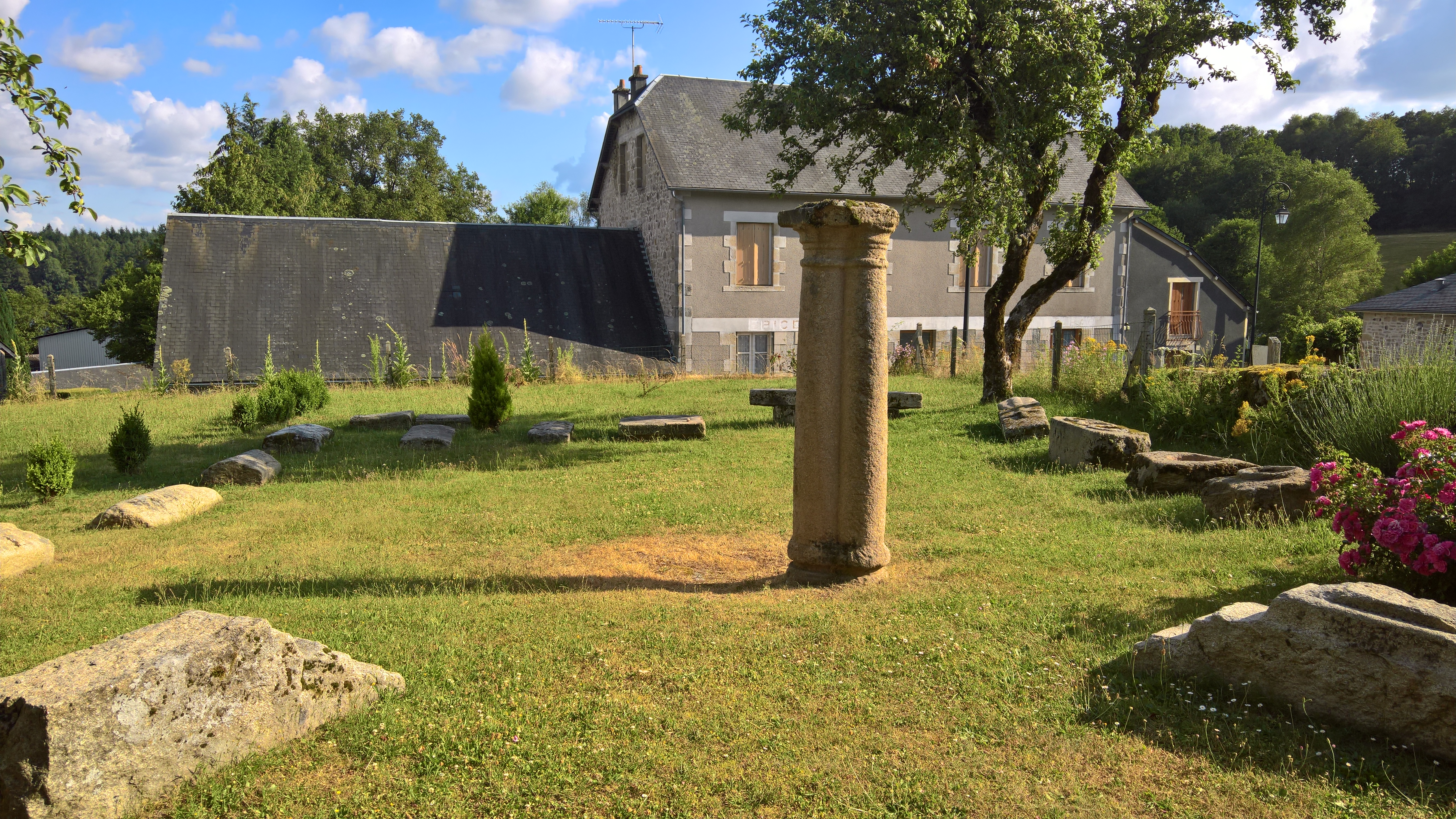 Selection of Gallo-Roman remains placed in a small park in Viam